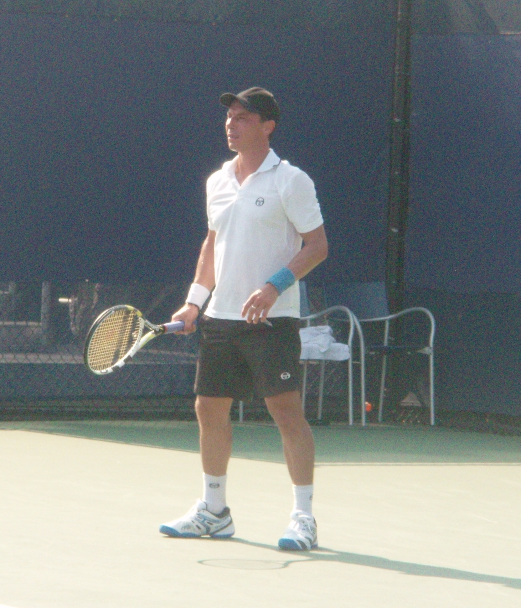 Jean Rene Lisnard, tennis professional